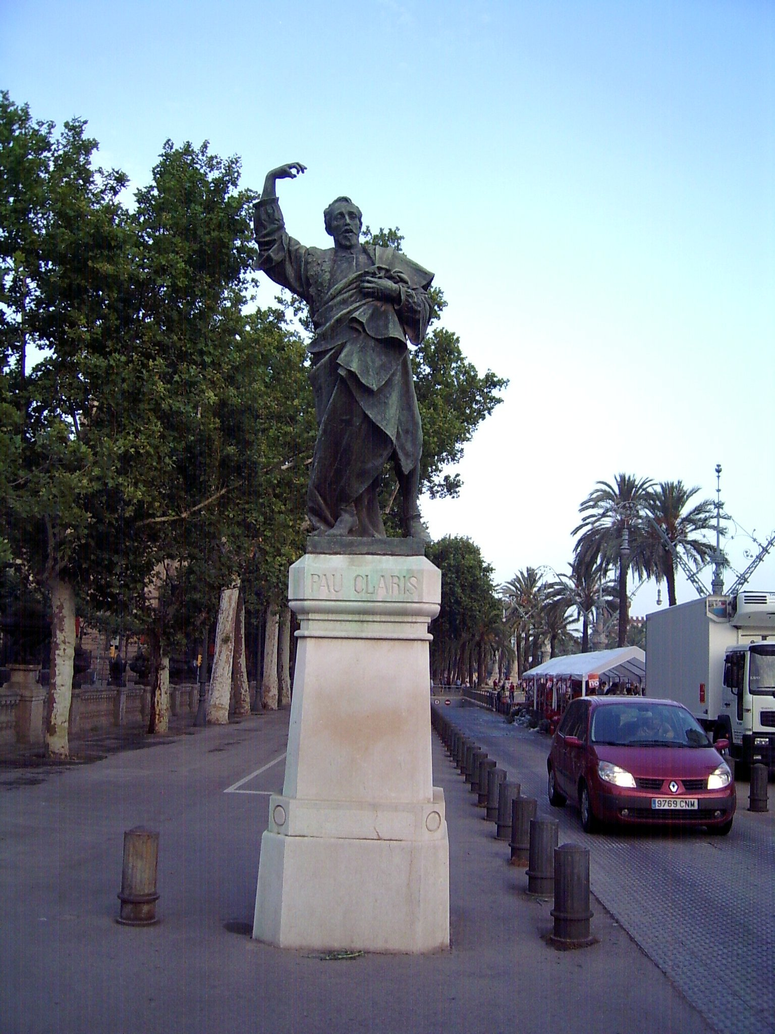 On january 16, 1641, proclaimed the Catalan Republic under the protection of France. 1